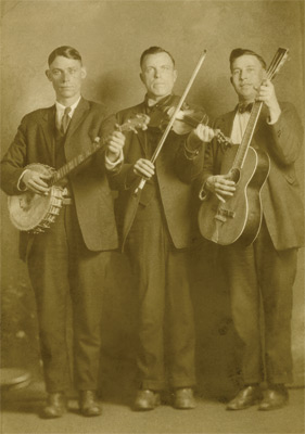 Charlie Poole & the North Carolina Ramblers, ca. 1923: Charlie Poole, Posey Rorer, Clarence Foust